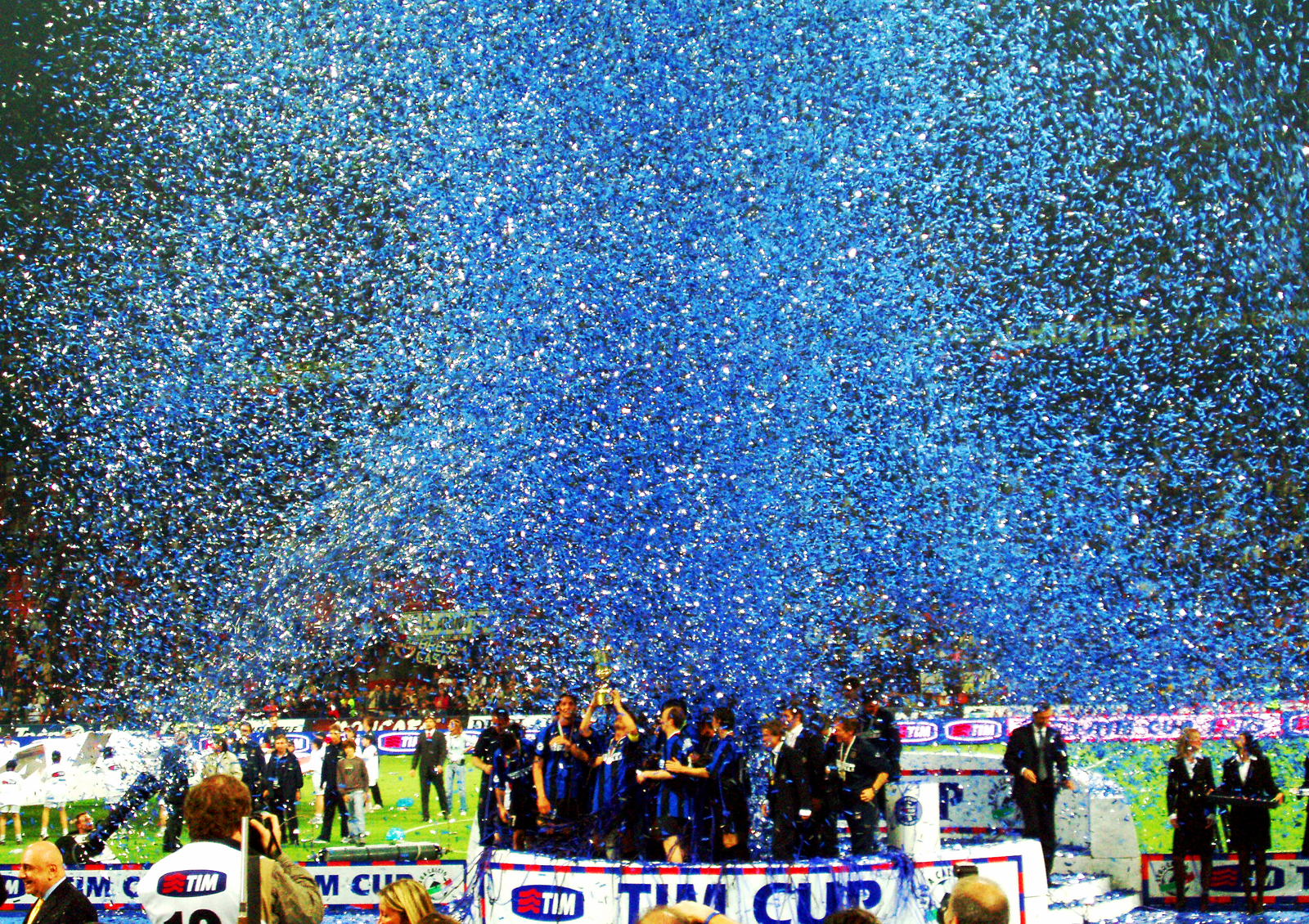 A moment of happiness in San Siro Stadium, Milan. Fc Internazionale (also known as Inter) won the coppa italia 2005, beating a.s. Roma.